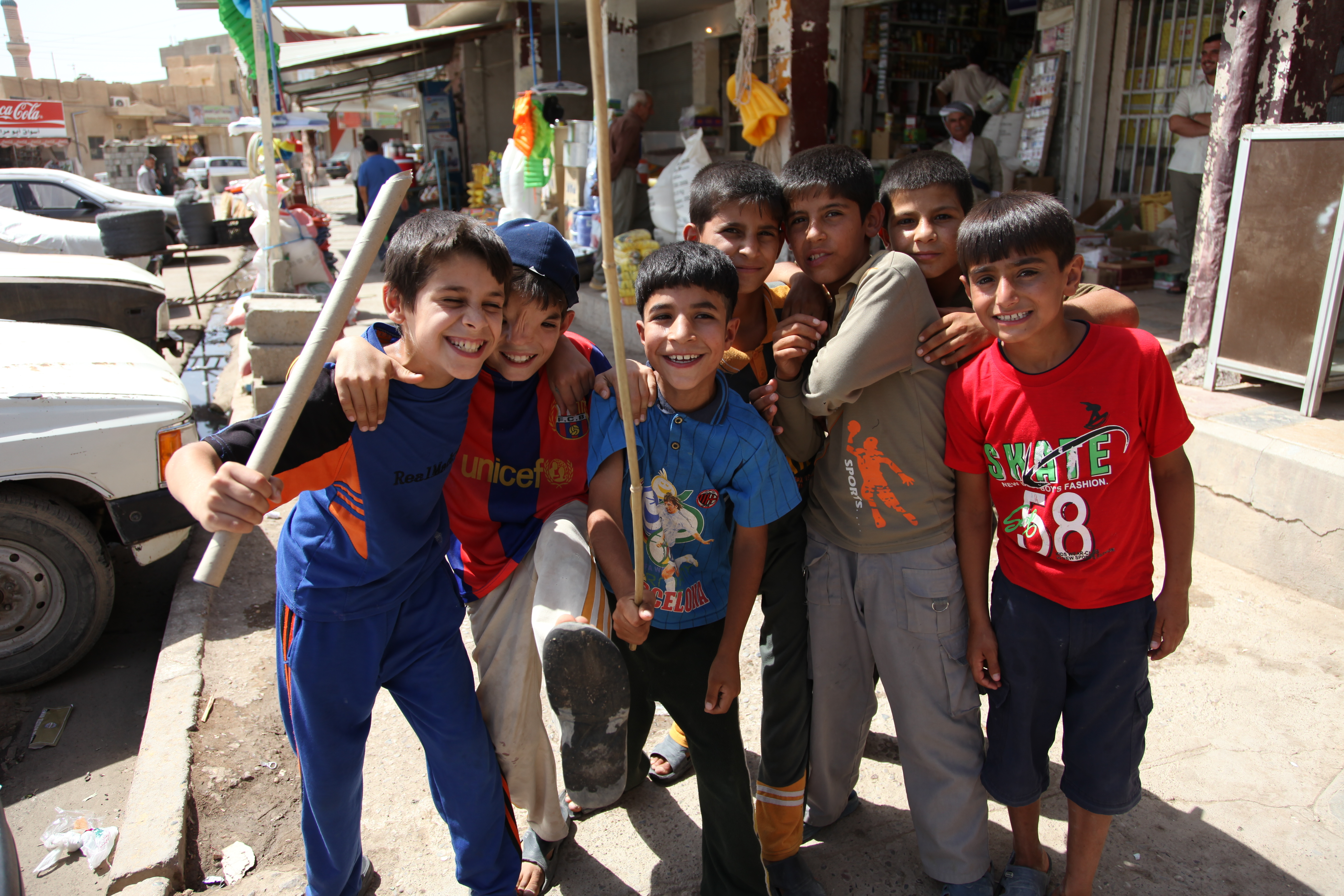 Children gather to have their picture taken at a market in Altun Kupri, Iraq, July 30. Unit: Joint Combat Camera Center Iraq DVIDS Tags: drawdown; OIF; Canaan Radcliffe; Leaving; packing up; going home; draw down; Combat Camera; Iraq